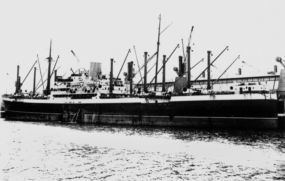 10,298 GRT cadet training ship MV Otaio, built in 1930 by Vickers, Armstrong at Barrow-in-Furness. She belonged to the New Zealand Shipping Company but was registered in Falmouth, England. The German submarine U-558 sank her in the Western Approaches by torpedo on 28 August 1941. (From description provided from photograph).